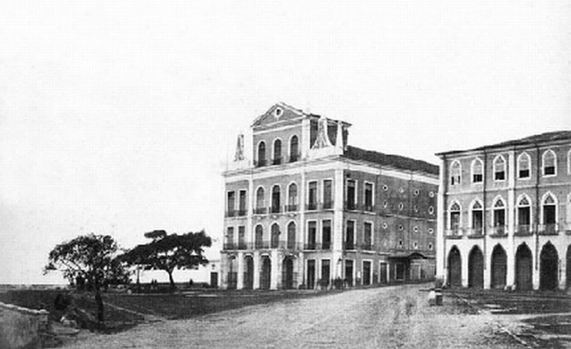 Old photo of Salvador - Bahia - Brazil: The "Saint John Theater" (1808-1922